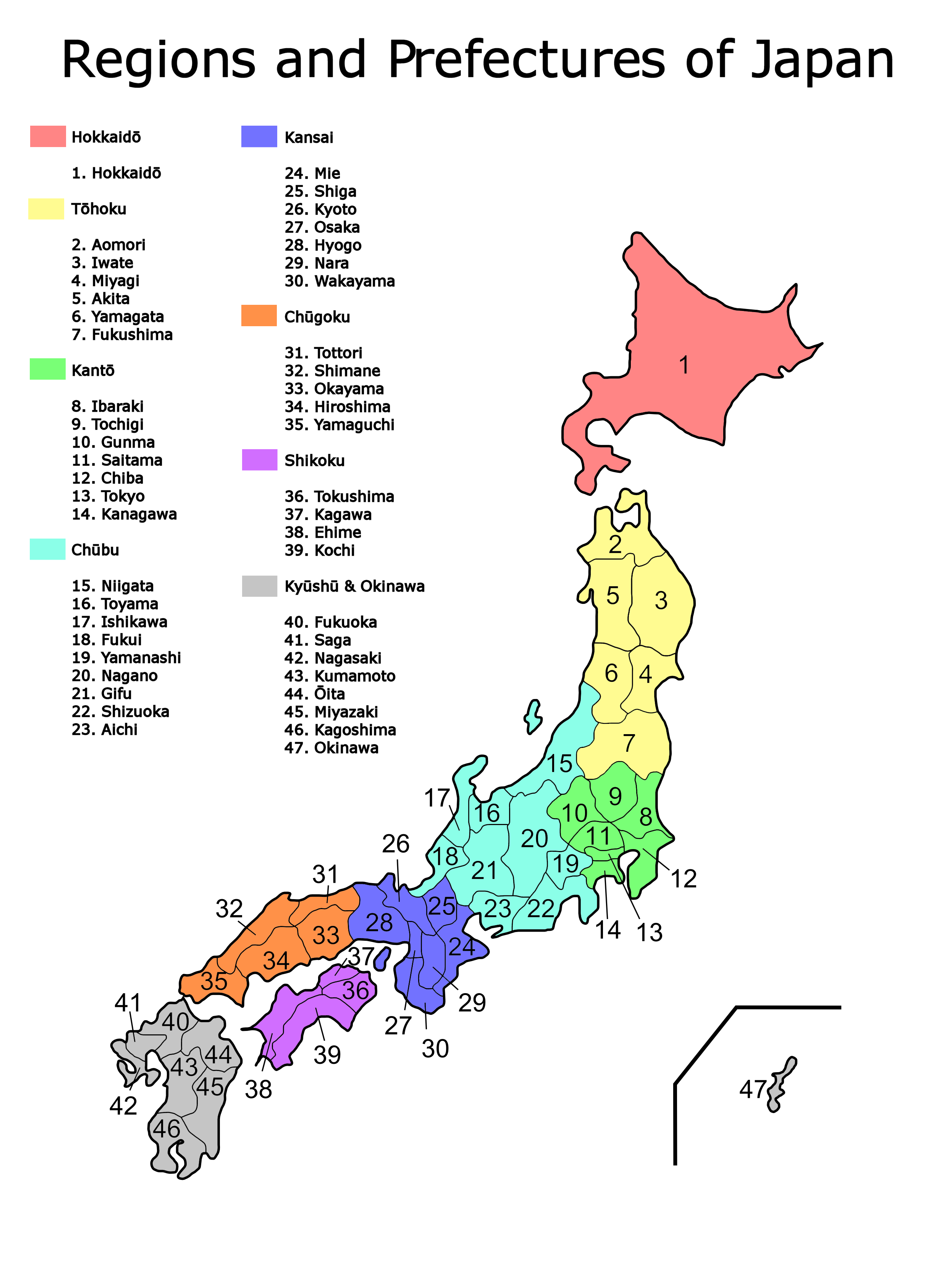 Map of the regions and prefectures of Japan in ISO 3166-2:JP order.